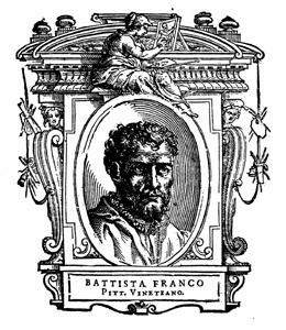 Illustratio from "Le Vite" by Giorgio Vasari, edition of 1568. For the artist portrayed see filename